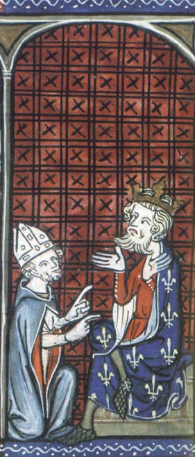 Philip II of France